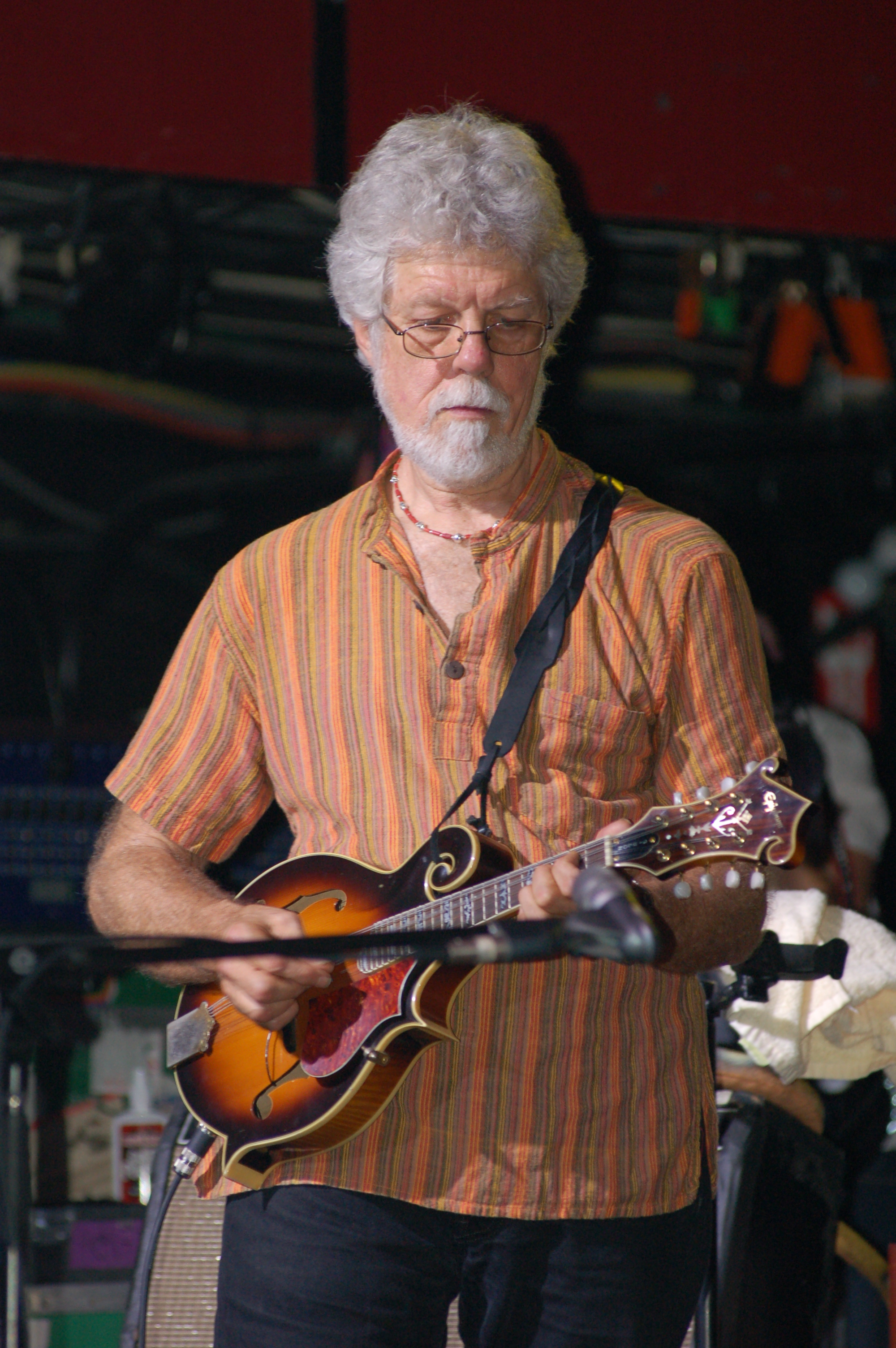 Fred Tackett playing mandolin in the band Little Feat part of an en.wikipedia musicians-work-group to improve articles of Jam Bands.